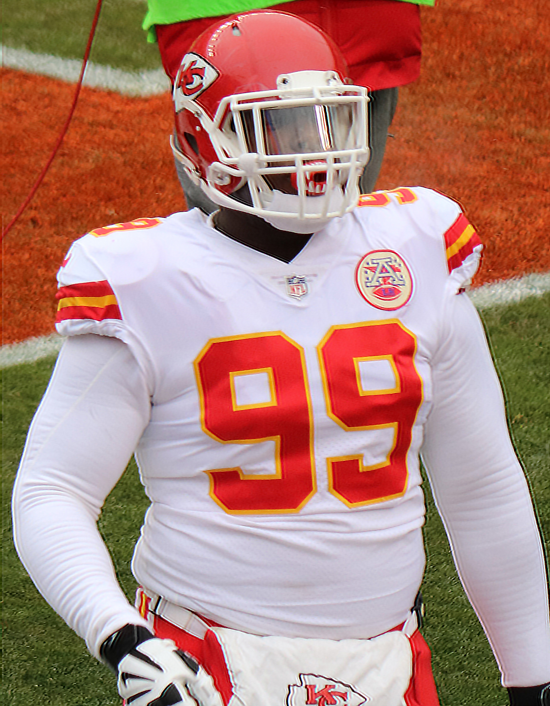 Rakeem Nuñez-Roches, a National Football League player.